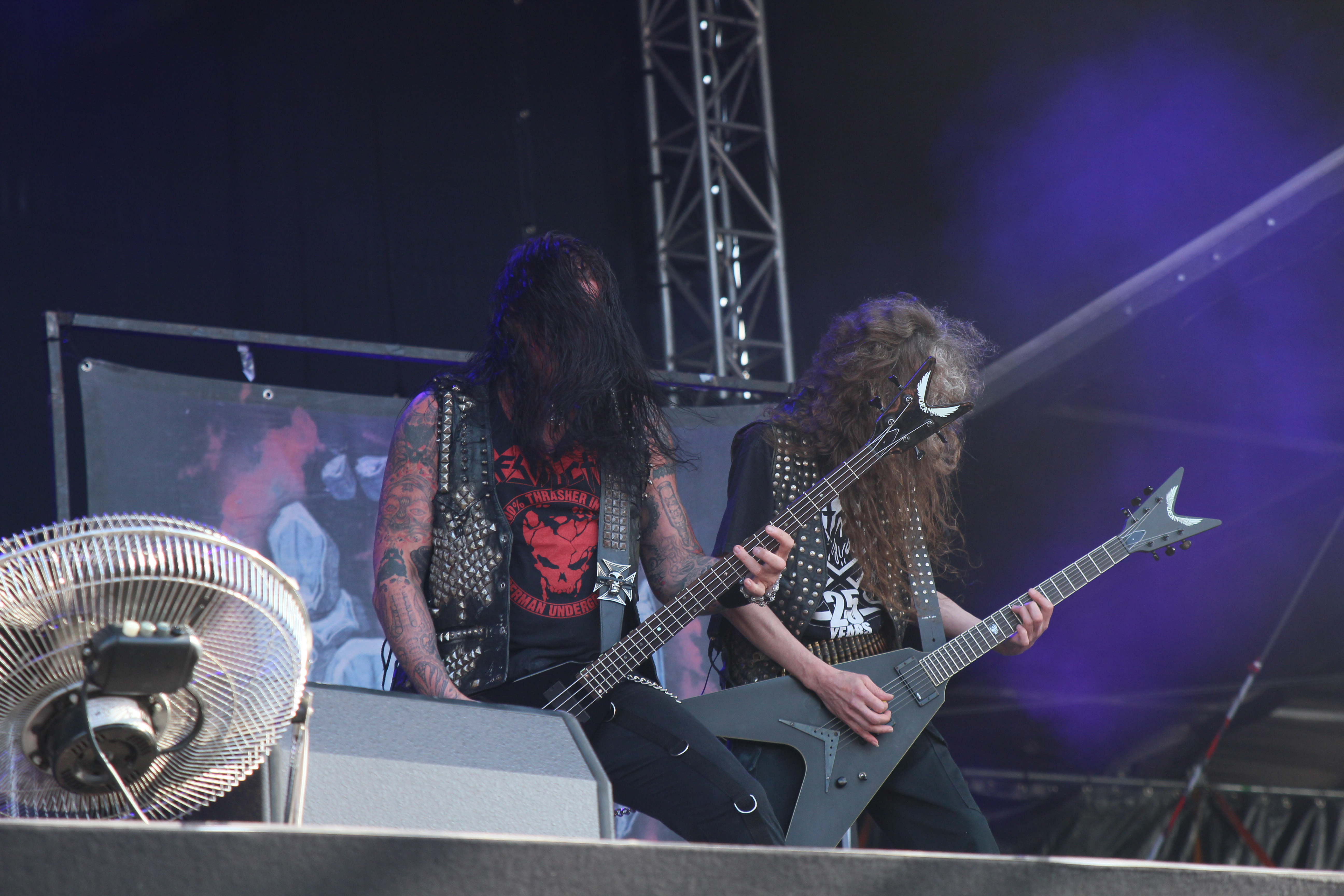 The German thrash metal band Destruction at the Rockharz Open Air 2014 in Ballenstedt/Germany